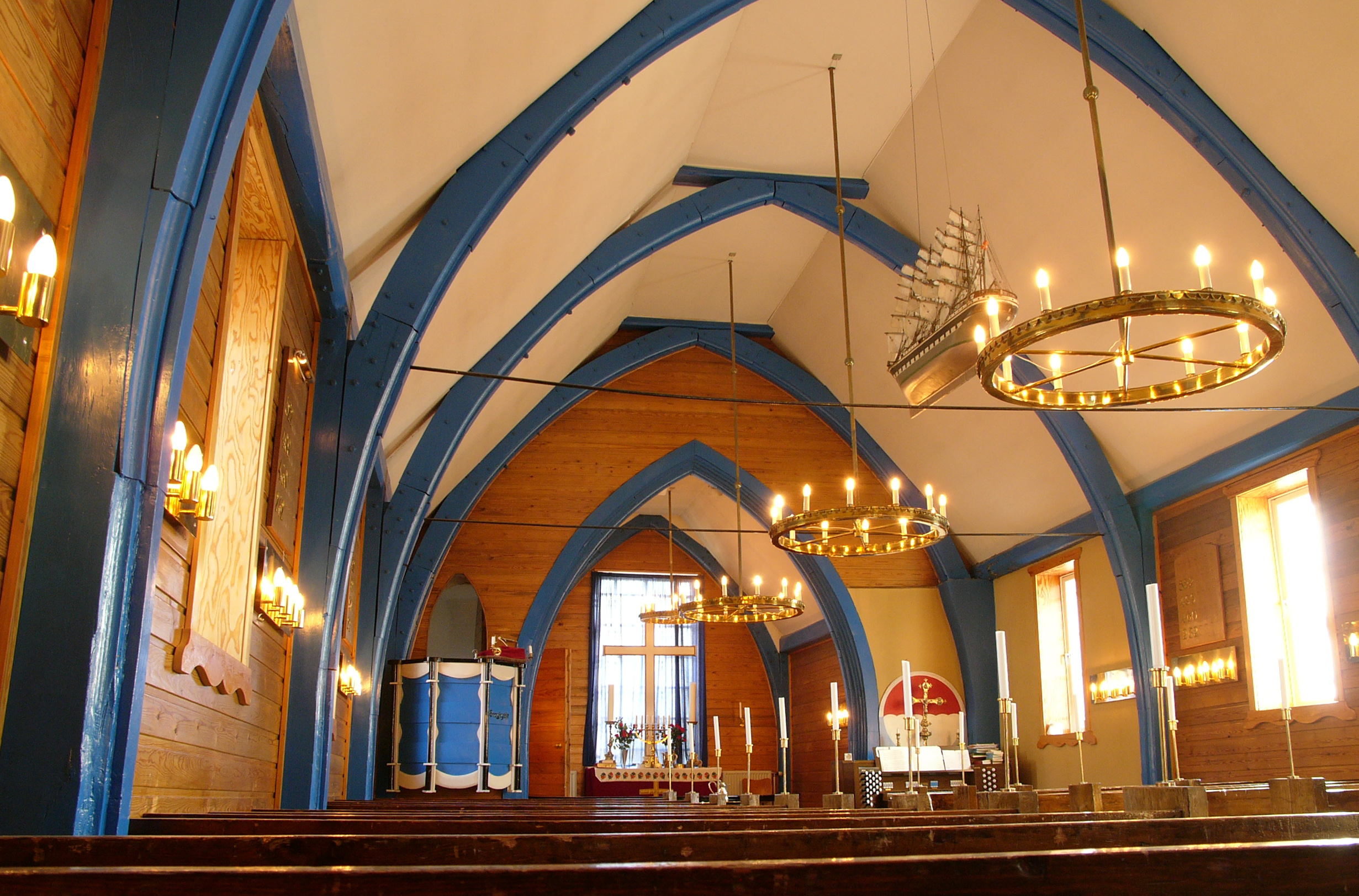 The church of Ittoqqortoormiit, Scoresby Sund, East Greenland